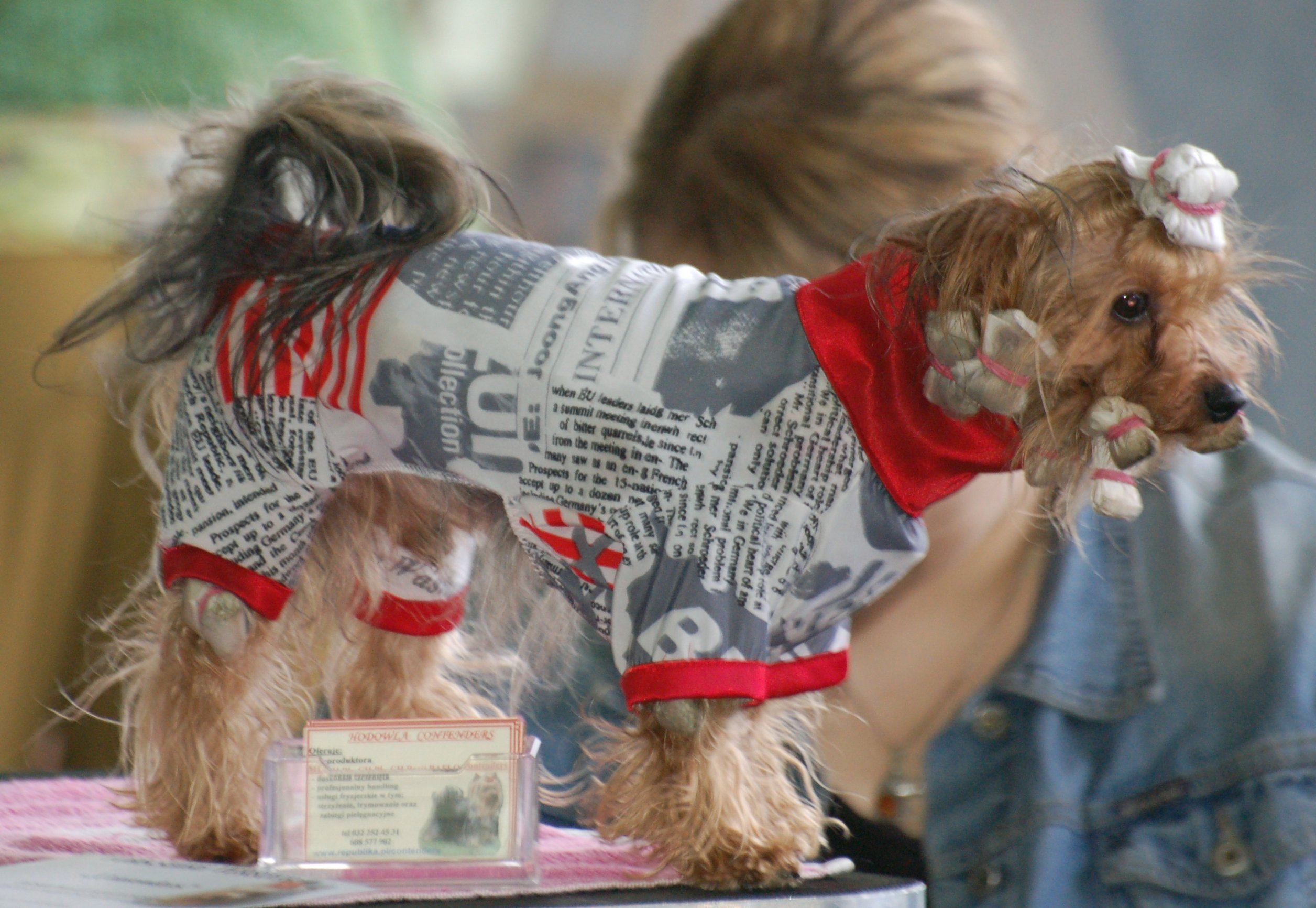 Yorkshire_terrier during dogs show in Katowice, Poland